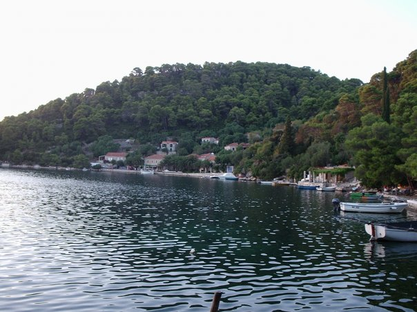 Babine Kuće (Grandmothers' Houses), first town on the cost of the Great Lake, Mljet, Croatia